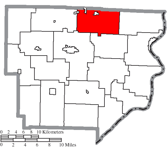 Map of the municipal and township boundaries of Monroe County, Ohio, United States, as of the 2000 census, with the location of Sunsbury Township highlighted. Township borders are shown only in unincorporated areas in order to differentiate incorporated and unincorporated areas more clearly.